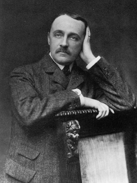 Ernest Archdeacon, Aviation pioneer, photographed in the 1890s. Picture was taken and published over 100 years ago, Author unknown. Widely published on the internet, across the Public Domain.